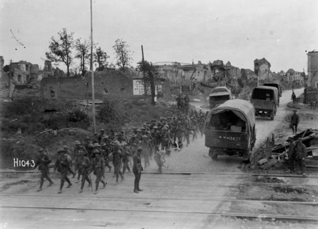 A New Zealand Battalion passing through recaptured Bapaume, World War I. Royal New Zealand Returned and Services' Association :New Zealand official negatives, World War 1914-1918. Ref: 1/2-013608-G. Alexander Turnbull Library, Wellington, New Zealand